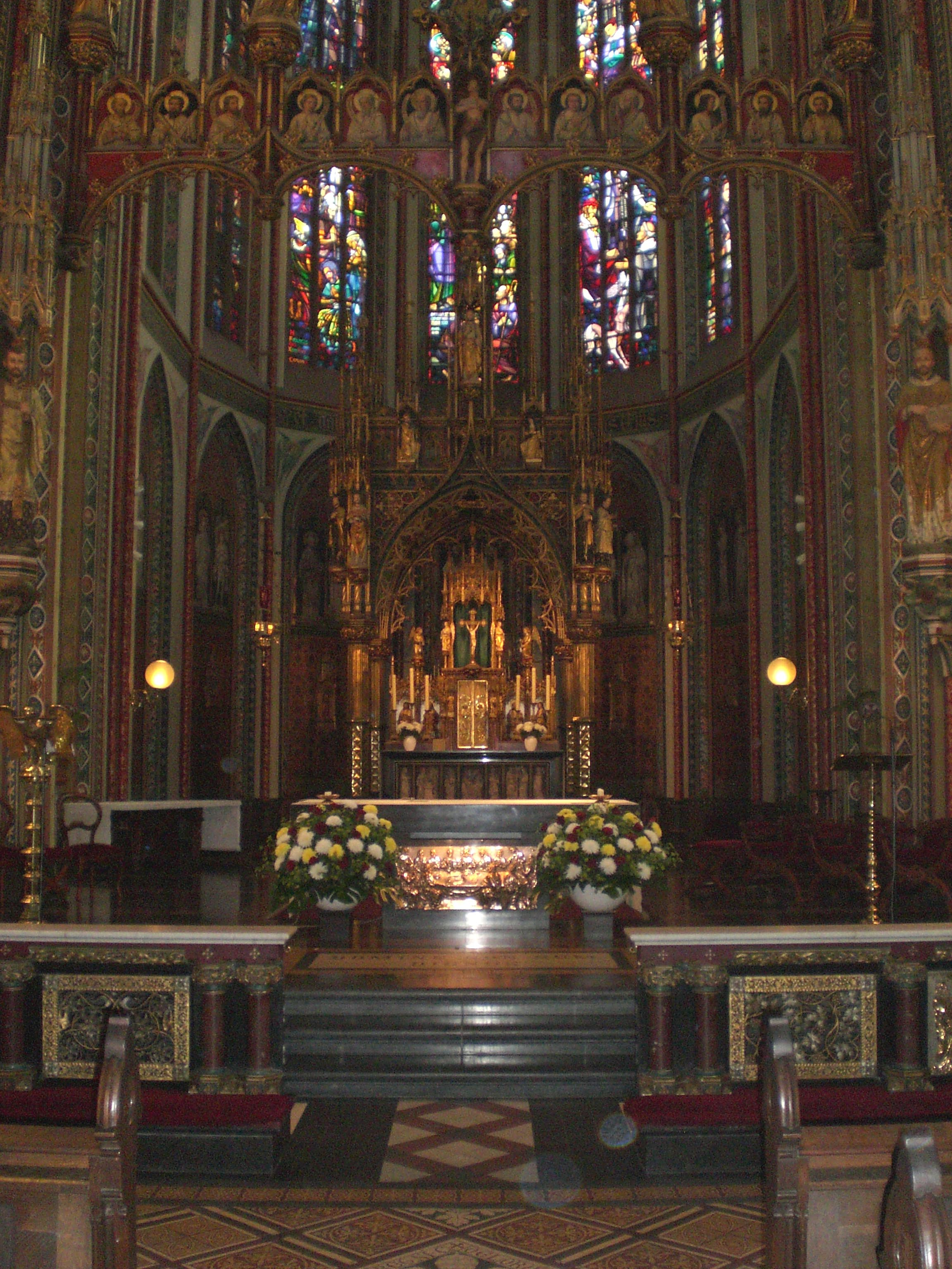 Jesuit Church "De Krijtberg" (Sint-Franciscus Xaveriuskerk), Singel 448, 1017 AV Amsterdam, --- Interior: Altar